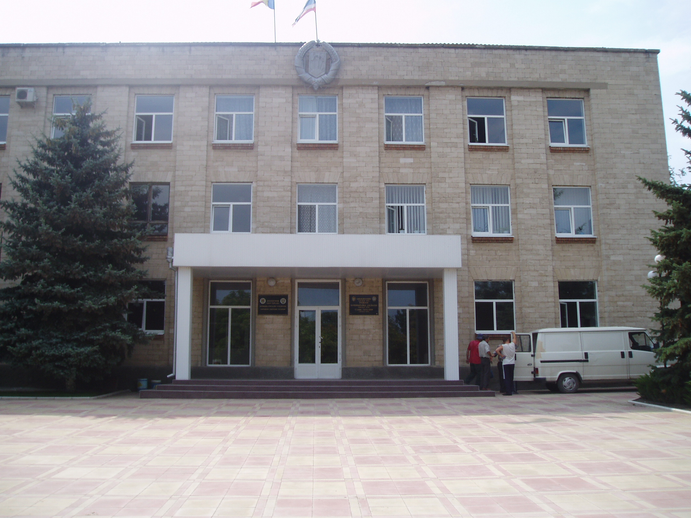 Probably the house of government or house of parliament or both. In Comrat, Gaguzia, Moldova.